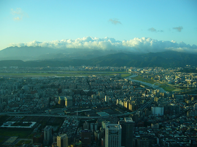 The MacArthur Bridges in Tapei, Taiwan Camera: Panasonic DMC-FX8 License on Flickr (2011-01-25): CC-BY-2.0 Original description:View of Taipei looking North. Airport in the distance along with mountains in the north. Taipei is in a large basin surrounded by mountains in almost all directions. Two bridges in the foreground right, are the McArthur Bridges 1 & 2 commemorating US General McArthur.